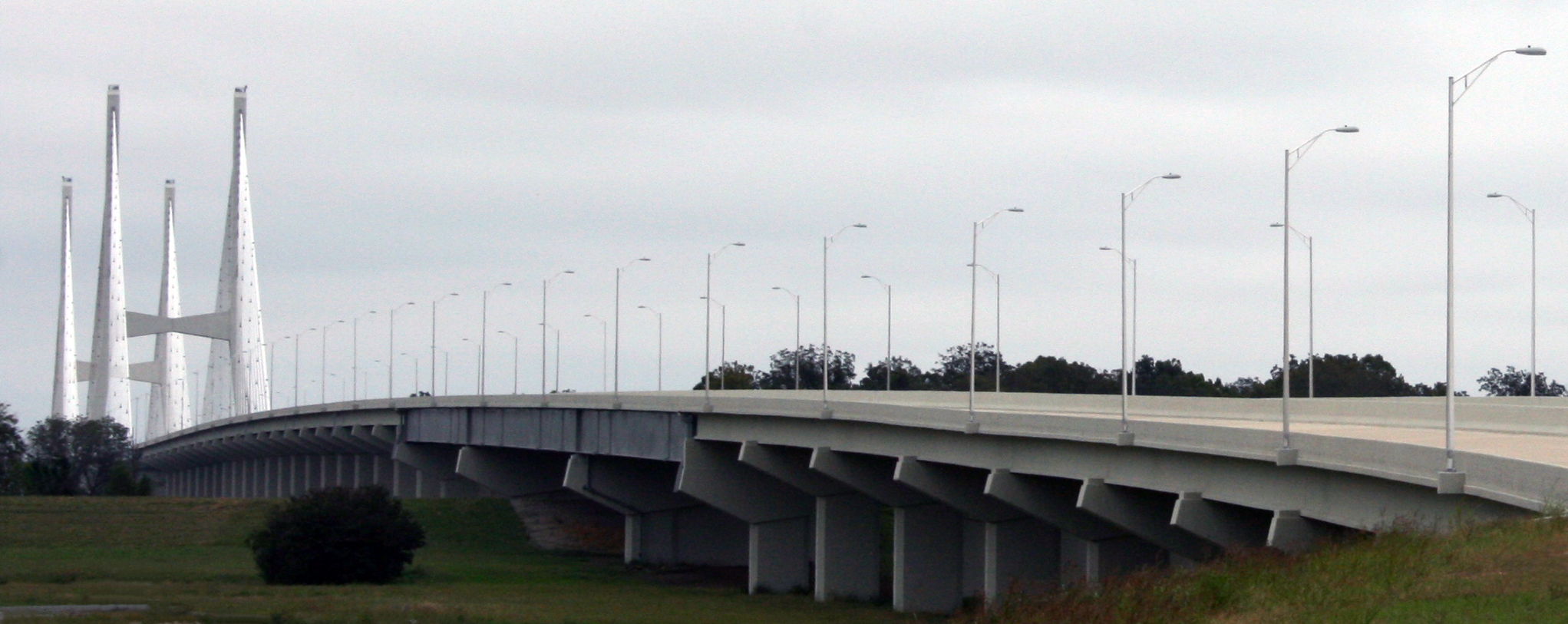 Mississippi River bridge at Greenville, MS/Lake Village, AR. Facing east/south-east from the north shoulder of the road, at the west footing of the bridge in Arkansas.